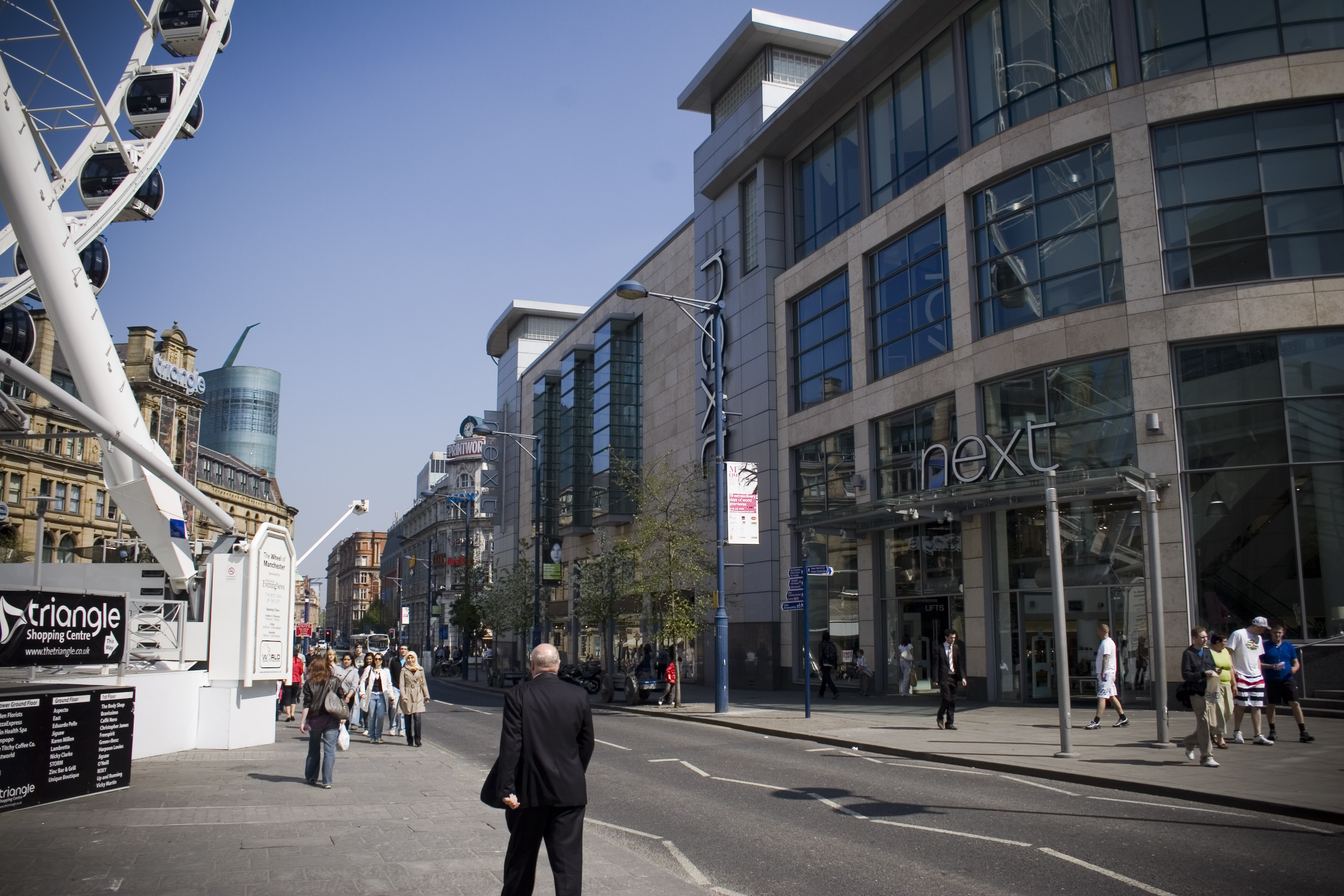 The epicentre of the 1996 Manchester Bomb.